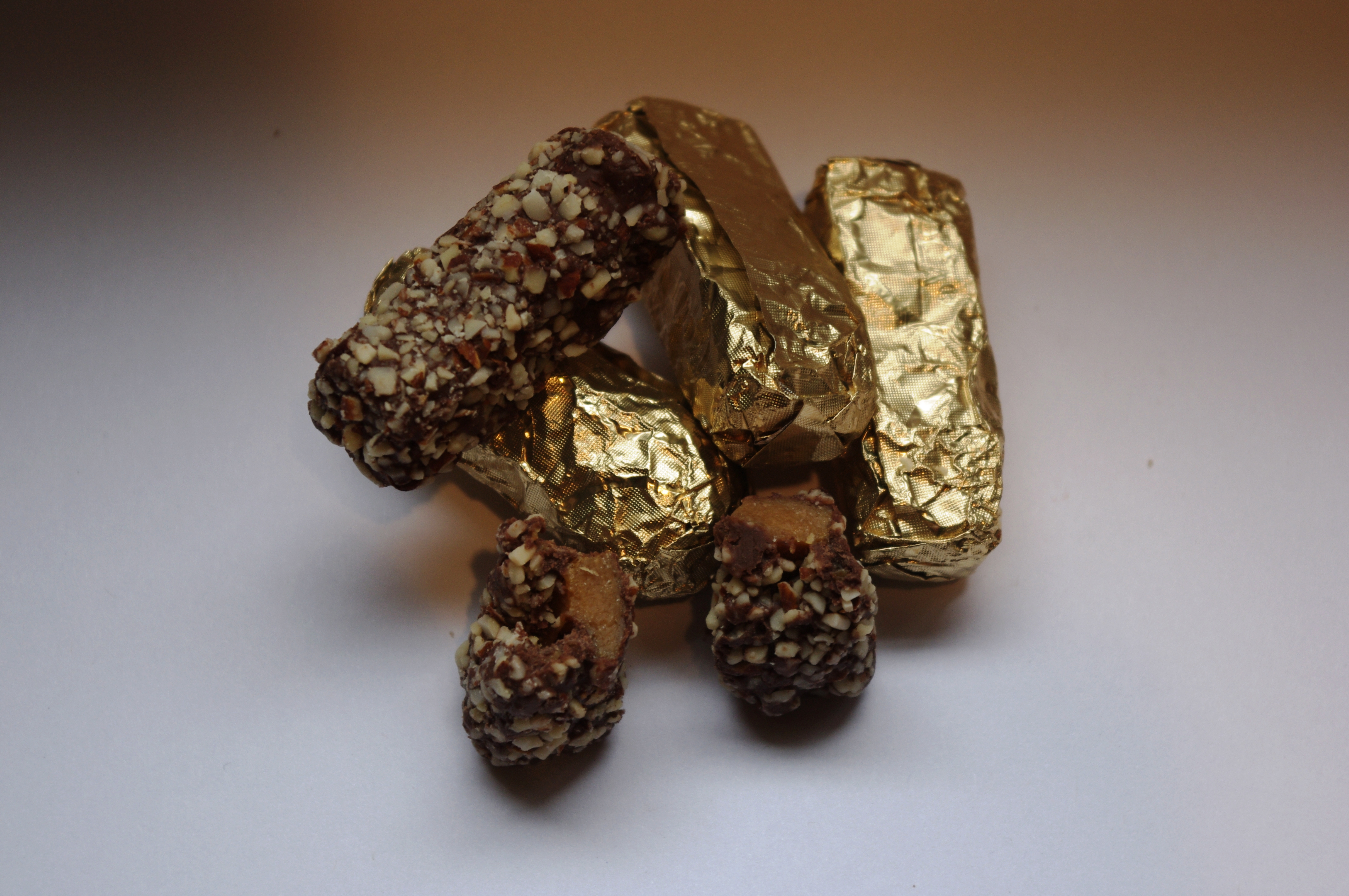 Almond Roca is a brand of chocolate toffee butter crunch candy made by Brown & Haley Co. of Tacoma, Washington, USA. The candy has a ground almond coating and almond chunks within the candy. It is similar to English toffee.